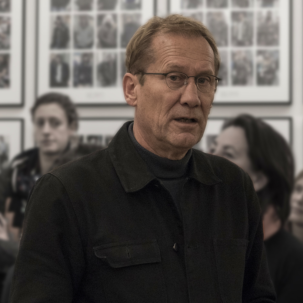 Dutch photographer Hans Eijkelboom at Sk-Stiftung Cologne (D)